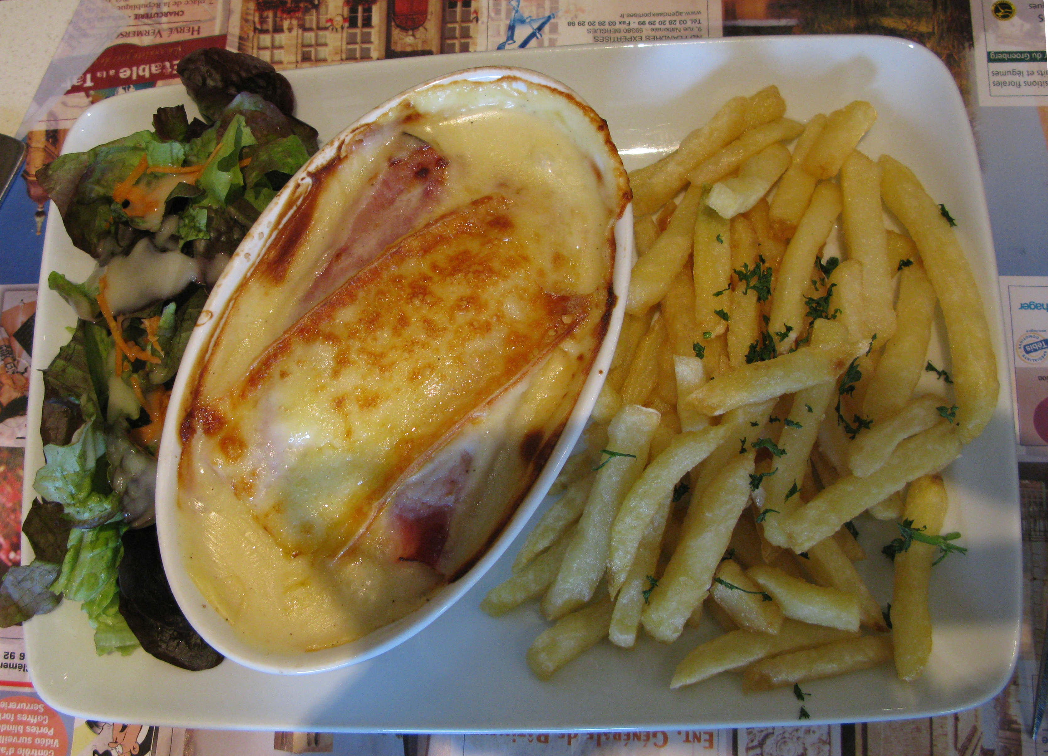 Chicon au jambon (endives with ham) in French northerner way, with maroilles cheese.